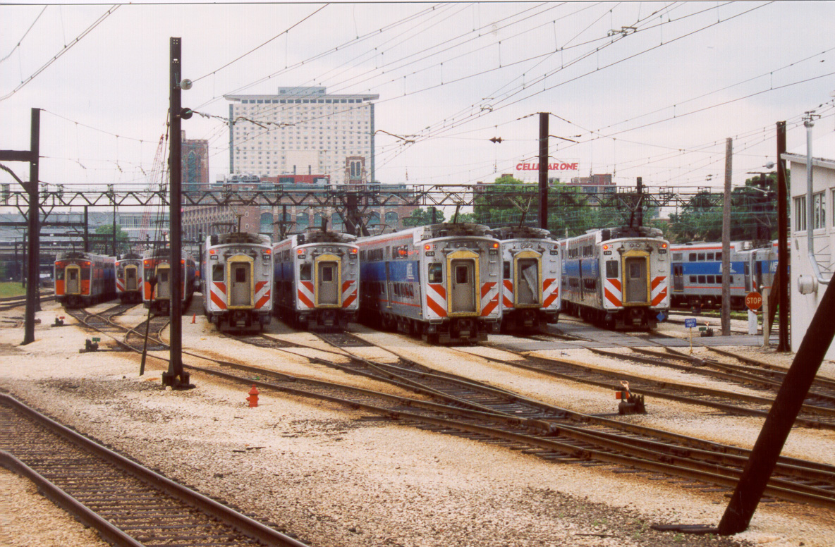 Metra Highliners in the yard, September 2001